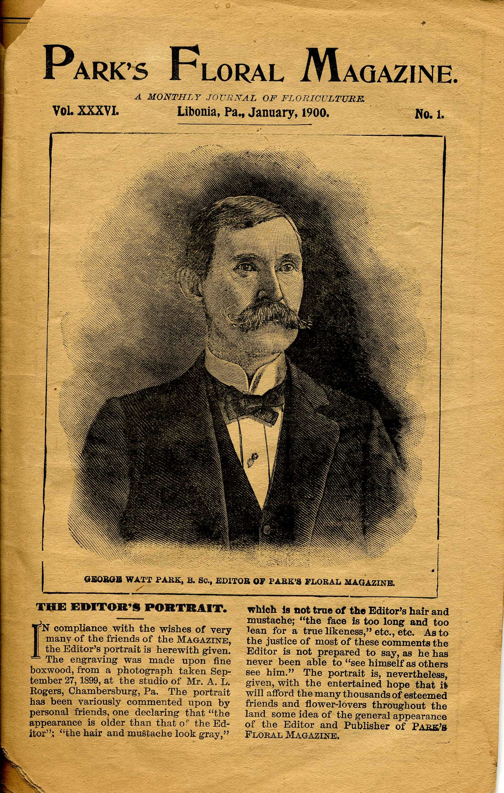 1900 Cover of Park's Floral Magazine, featuring founder George Watt Park